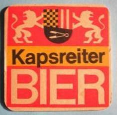 old beer mat Kapsreiter brewery, Schärding (Kapsreiter group)